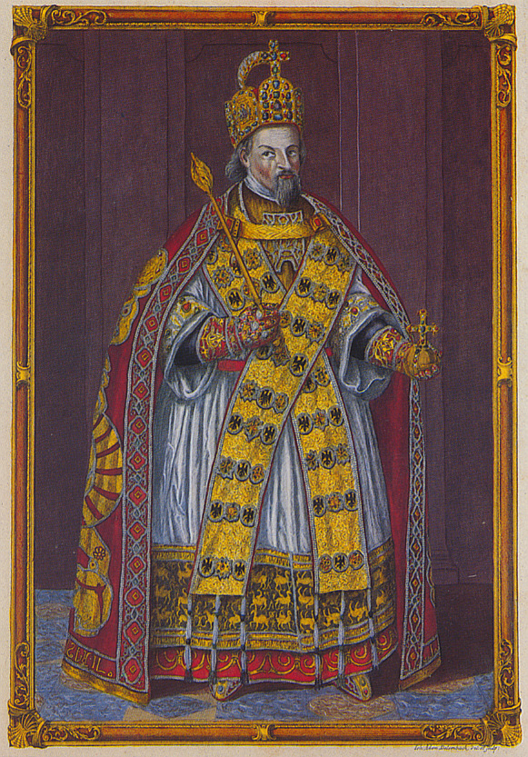 Emperor Sigismund with the coronation insignias of the Holy Roman Empire Coloured copperplate engraving (36.3 x 25.2 cm) by Johann Adam Delsenbach (1687-1765), from the book "Wahre Abbildung der sämtlichen Reichskleinodien..." (Nürnberg 1790).